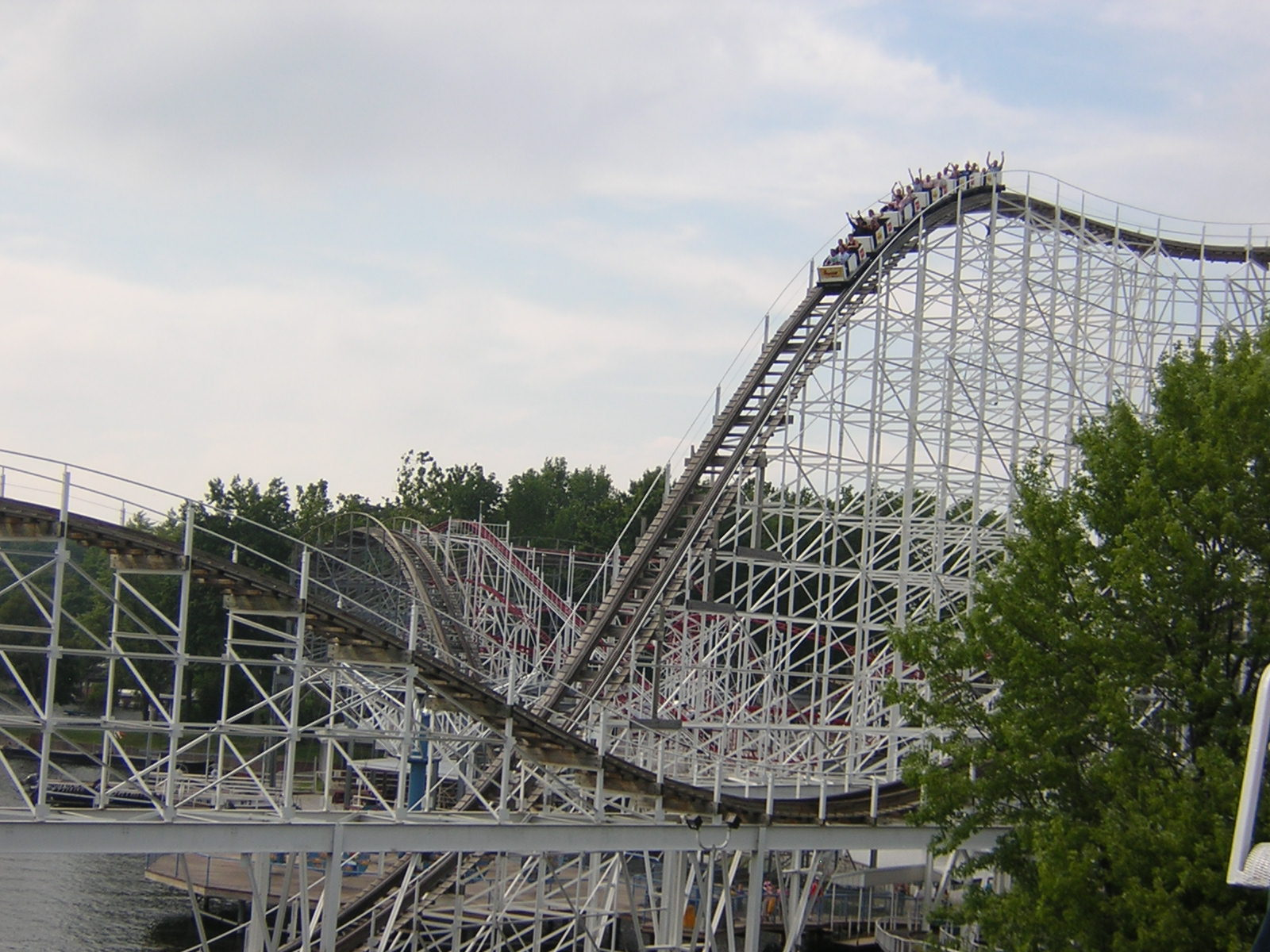 A scene from Indiana Beach, an amusement park located in Monticello, Indiana on Lake Shafer, a manmade lake on the Tippecanoe River. First drop of Hoosier Hurricane